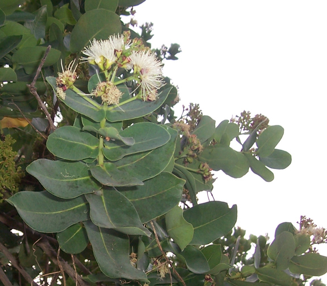 Flower and leaves of the hute tree.